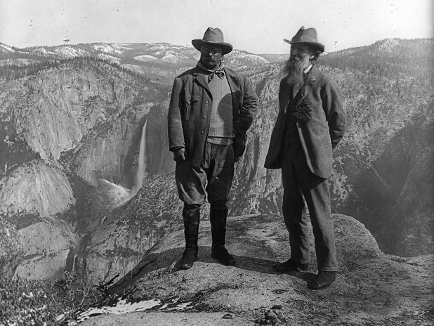 John Muir with Theodore Roosevelt on Glacier Point in Yosemite CREDIT: Theodore Roosevelt and John Muir on Glacier Point, Yosemite Valley, California, ca. 1906. Prints and Photographs Division, Library of Congress. Reproduction Number LC-USZ62-107389.